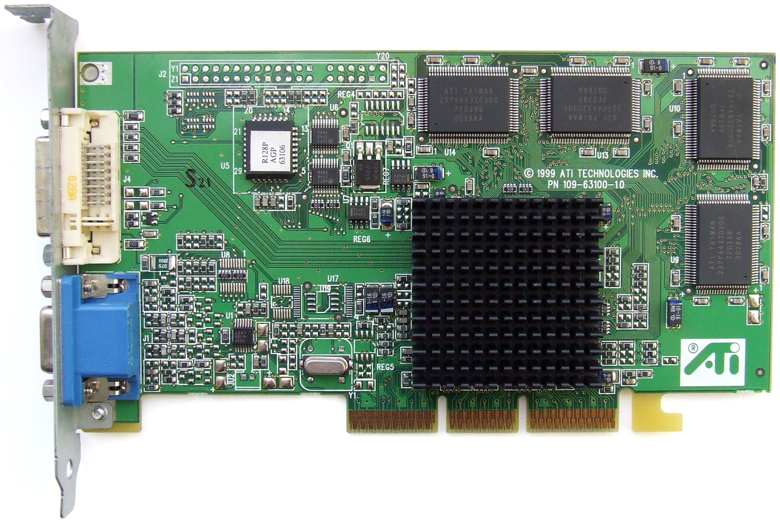 Built-by-ATI Rage 128 Pro video card. It is based on the Rage 128 Pro GL graphics processing unit and equipped with 32 MB of SGRAM (BBA too) as well as a VGA and DVI-D port each. The Rage 128 Pro was one of the first GPUs with an on-chip TMDS transmitter, thus requiring no discrete logic to drive the DVI interface.